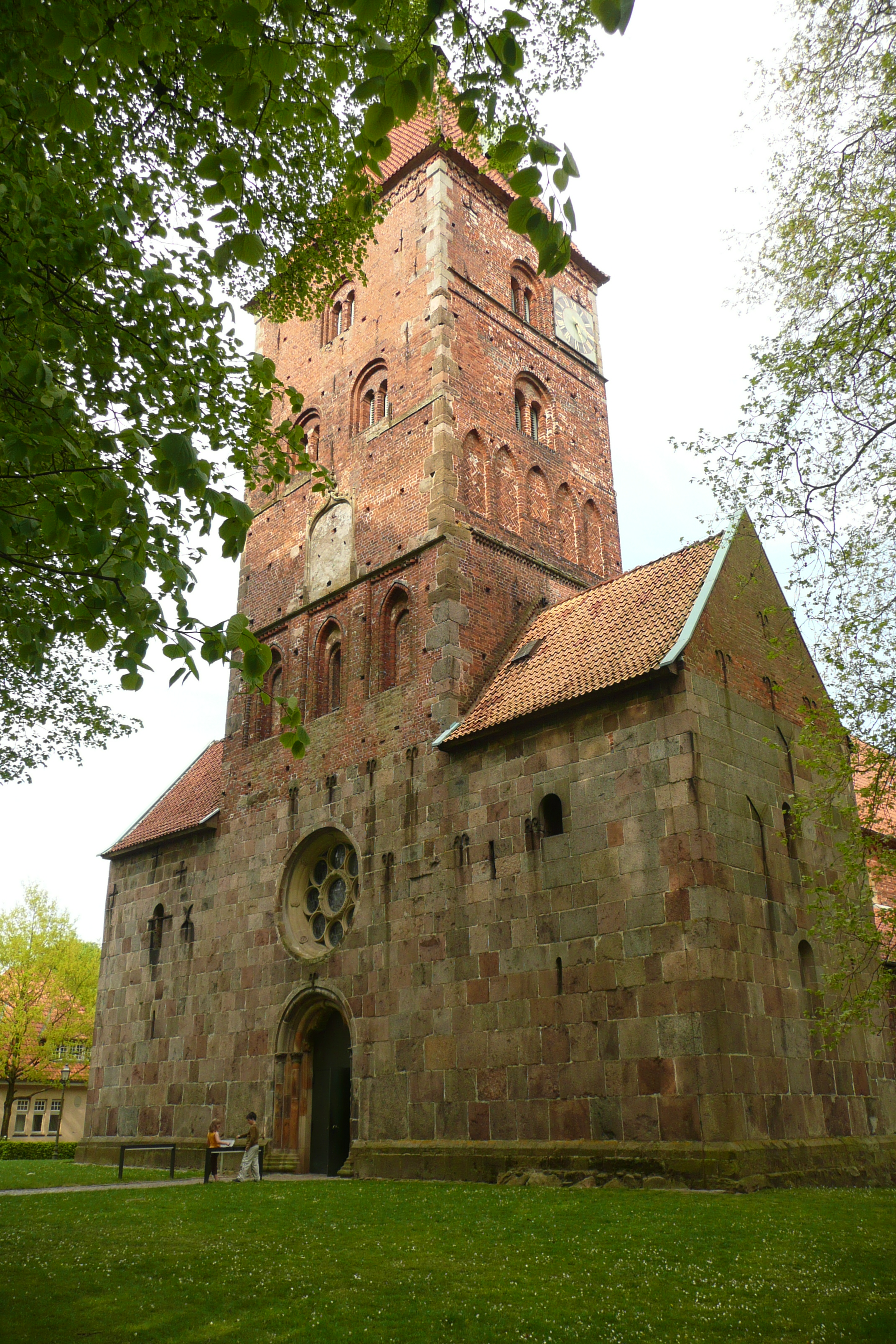 Alexander Church in Wildeshausen (front view)